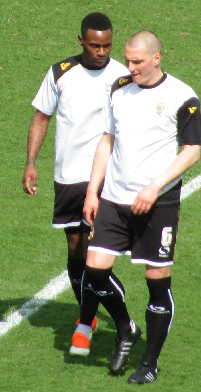 Pictured during the 2-2 draw between Port Vale and Northampton Town on 20 April 2013.